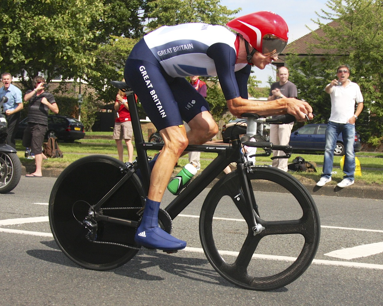 Bradley_Wiggins_GBR_4